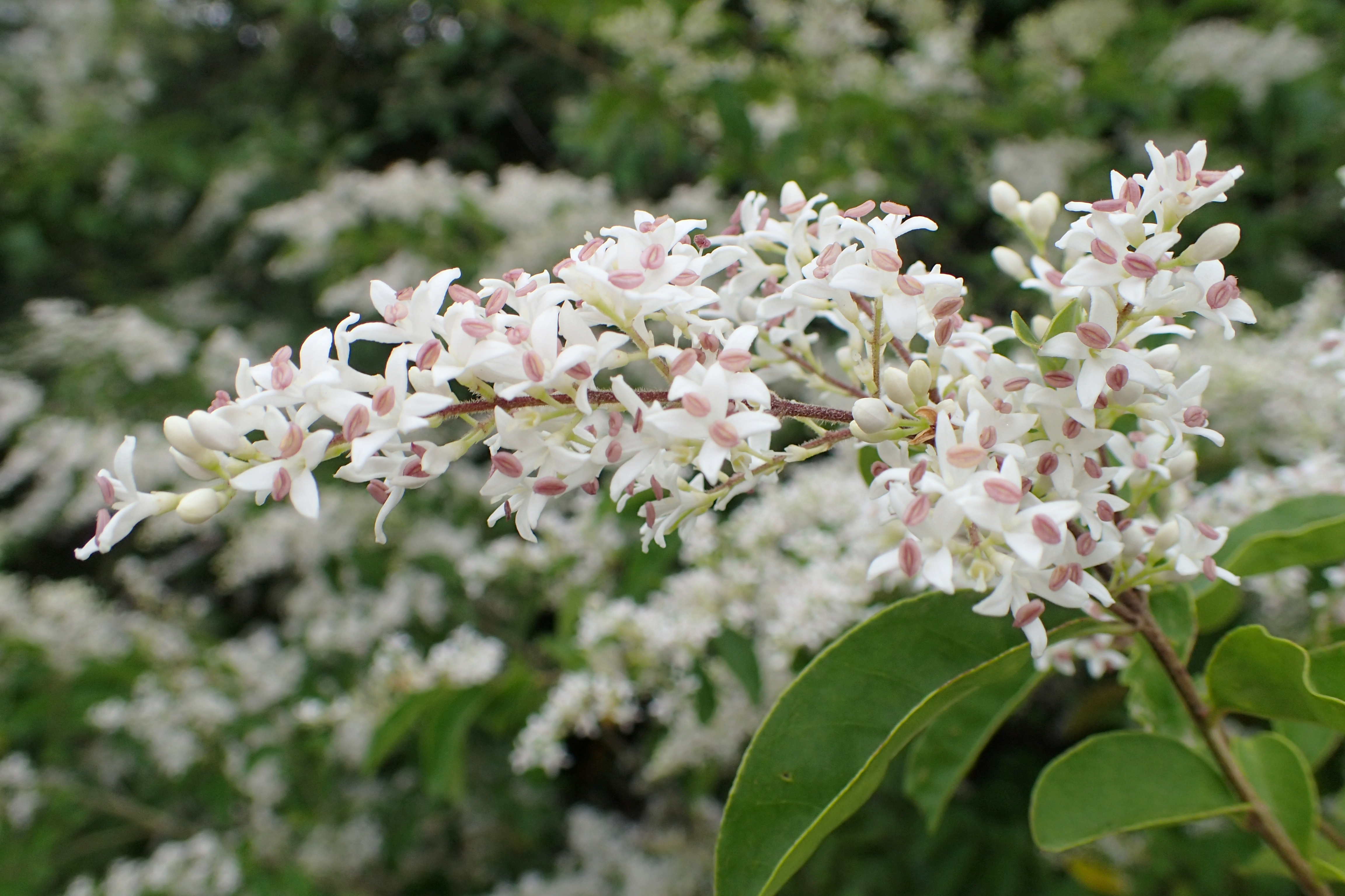 Ligustrum sinense in Waioeka Gorge Scenic Reserve (New Zealand)